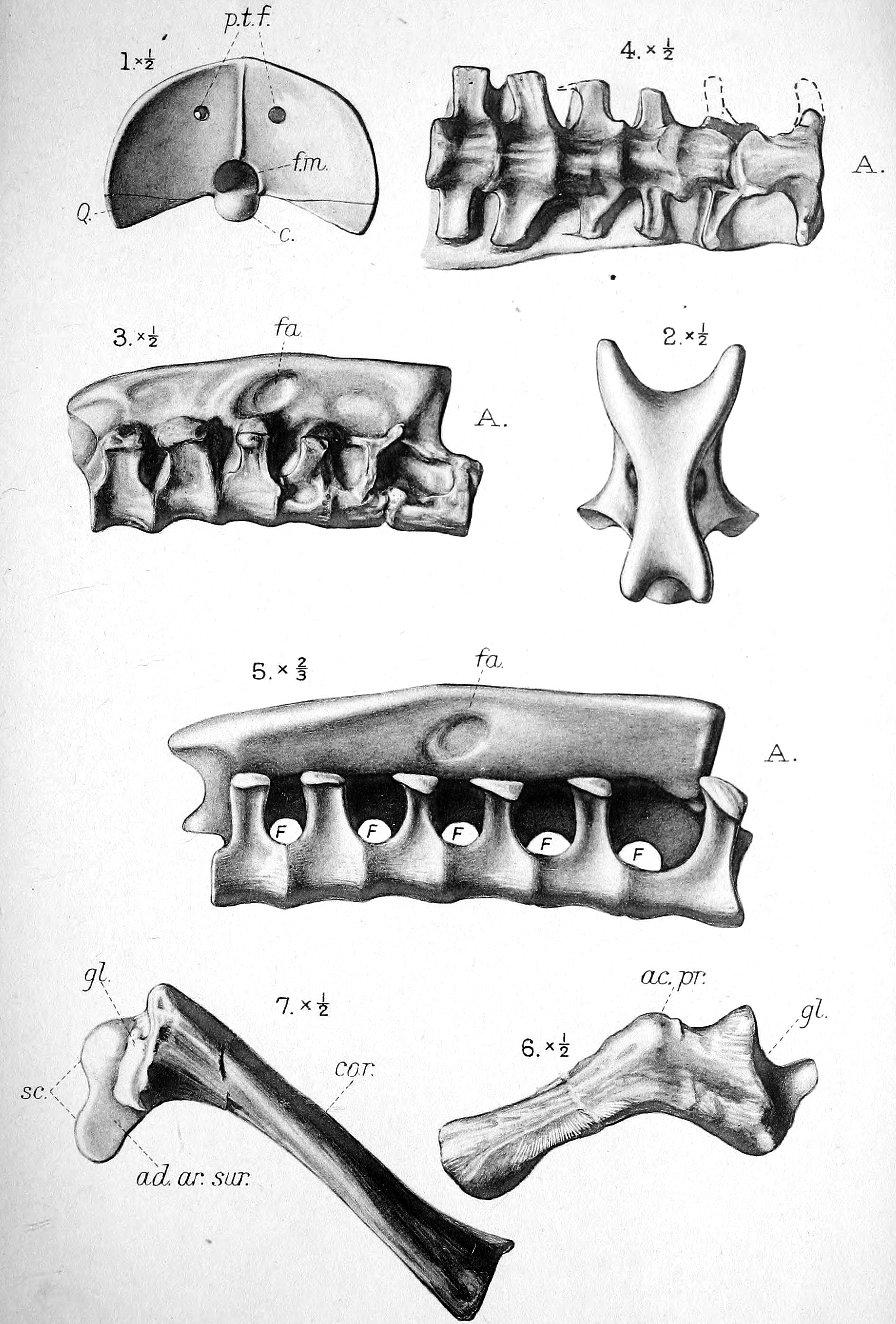 Various bones ofIstiodactylus latidens, including back of skull, notarium, and neck vertebra.